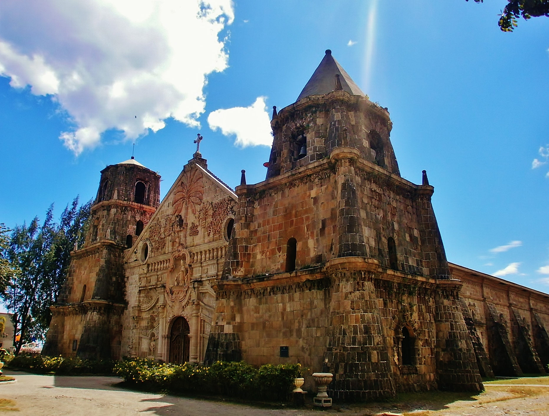 The Miag-ao church was built during the 16th century and is considered as one of the oldest churches in Iloilo. Originally built as a place of worship, it also served as a fortress against the Moros (Muslim pirates) during their raids.